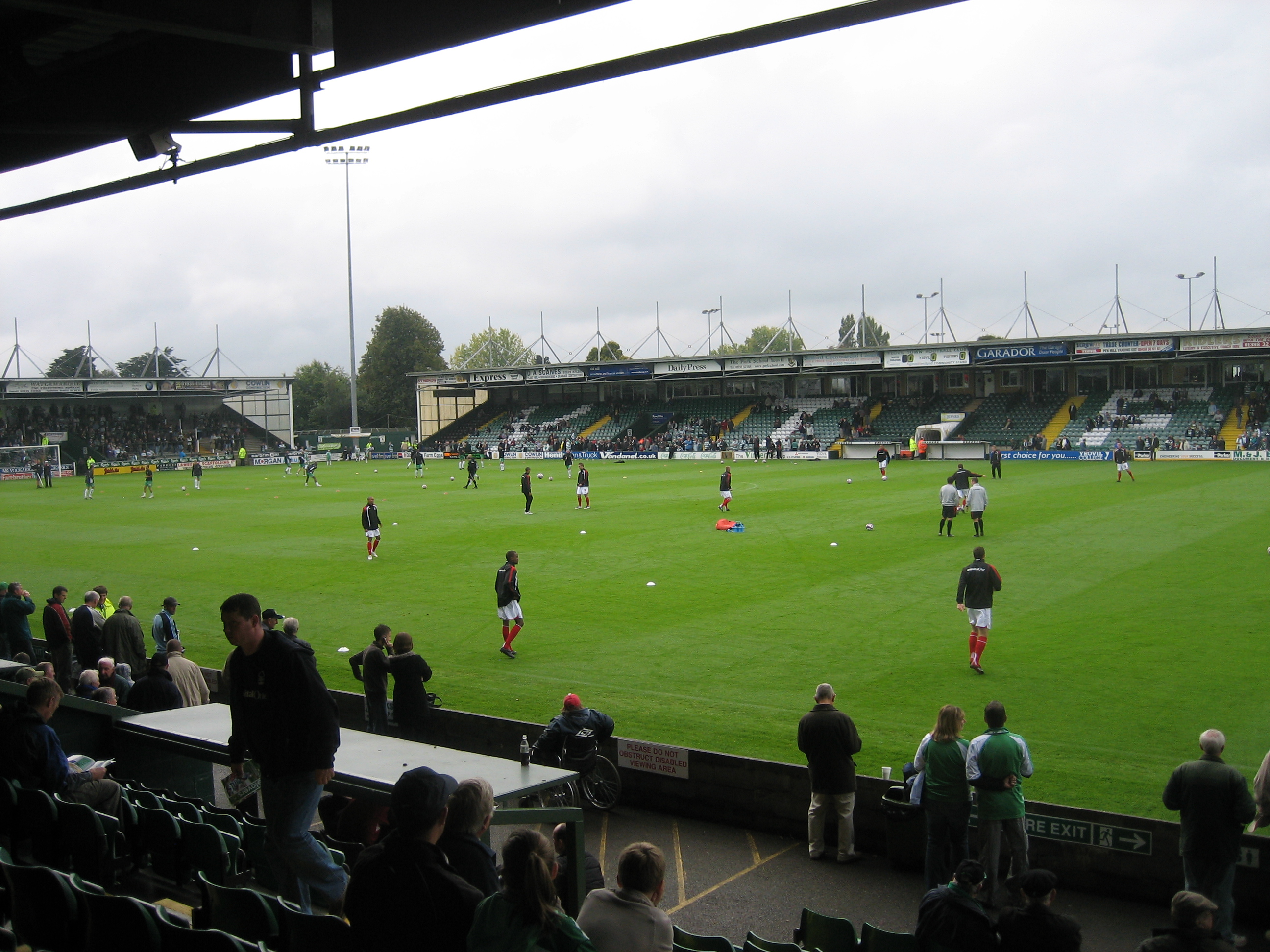 Huish Park, 29 September 2007, Yeovil Town and Nottingham Forest players warm up on the pitch before the match, which Forest won 3-0